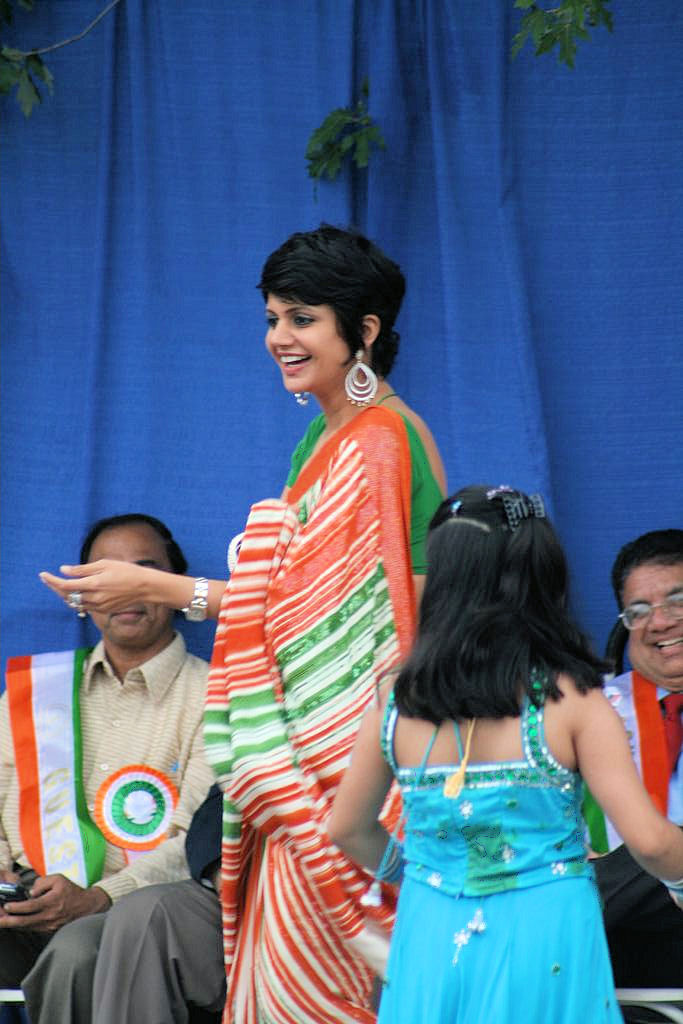 Mandira Bedi at India Day Parade